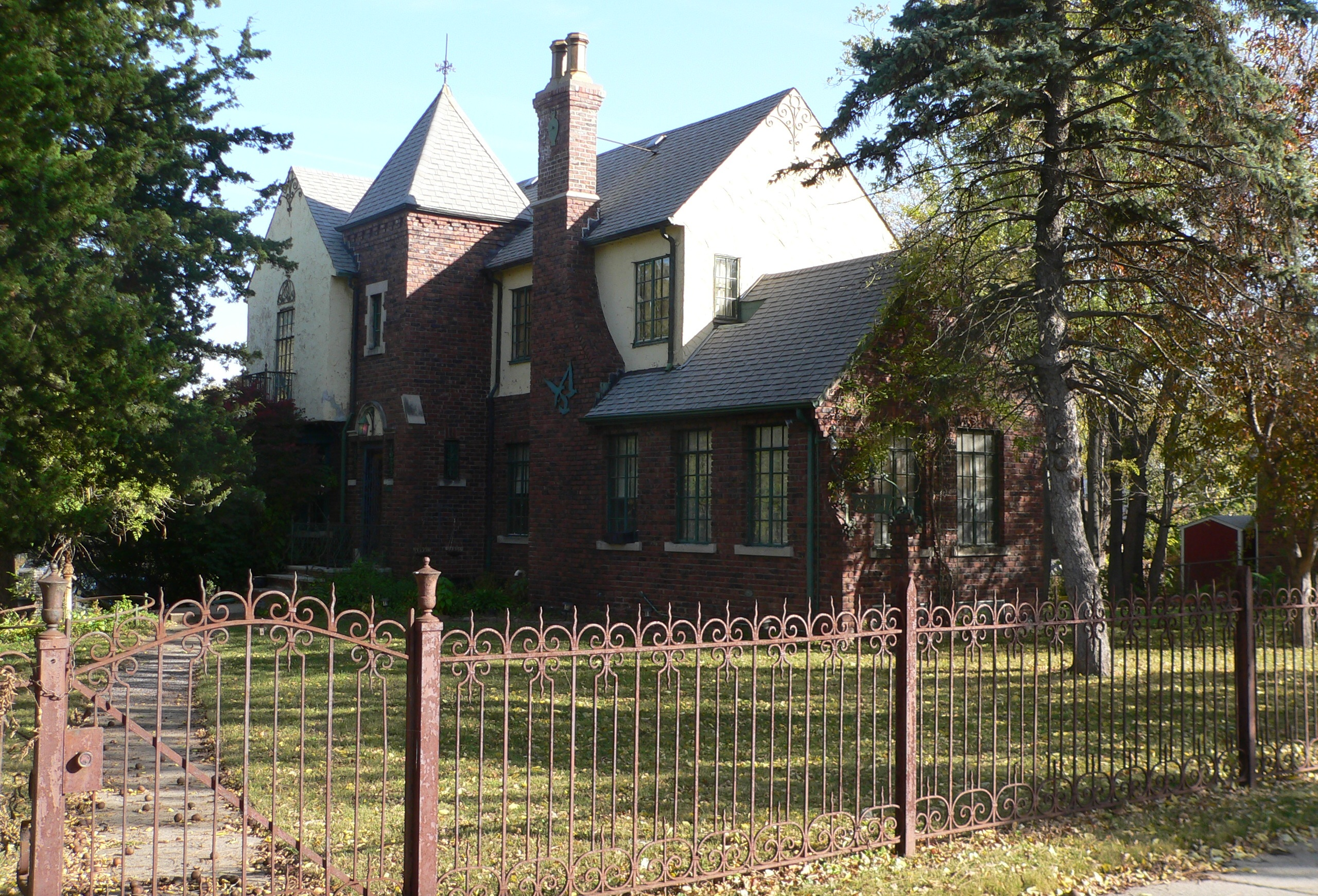 Harry B. Neef House, located at 2884 Iowa Street in Omaha, Nebraska; seen from the southwest.